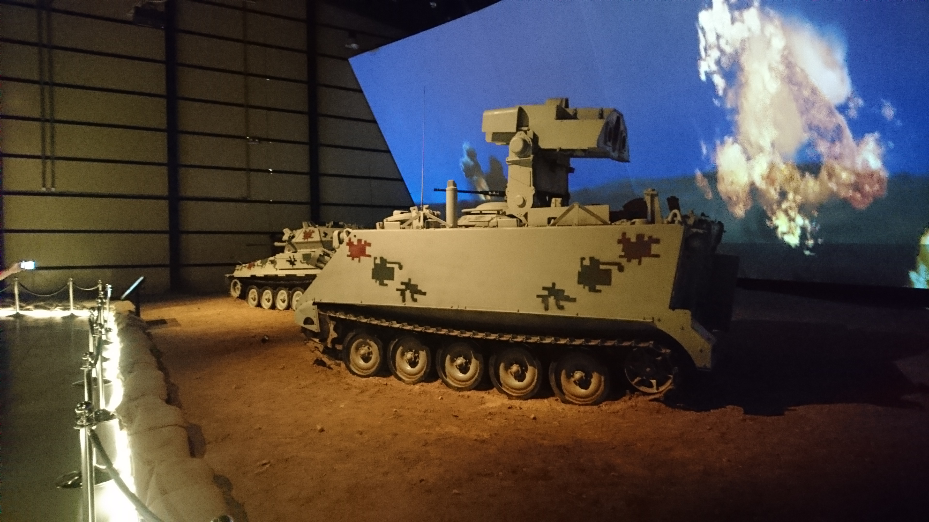 Royal Tank Museum